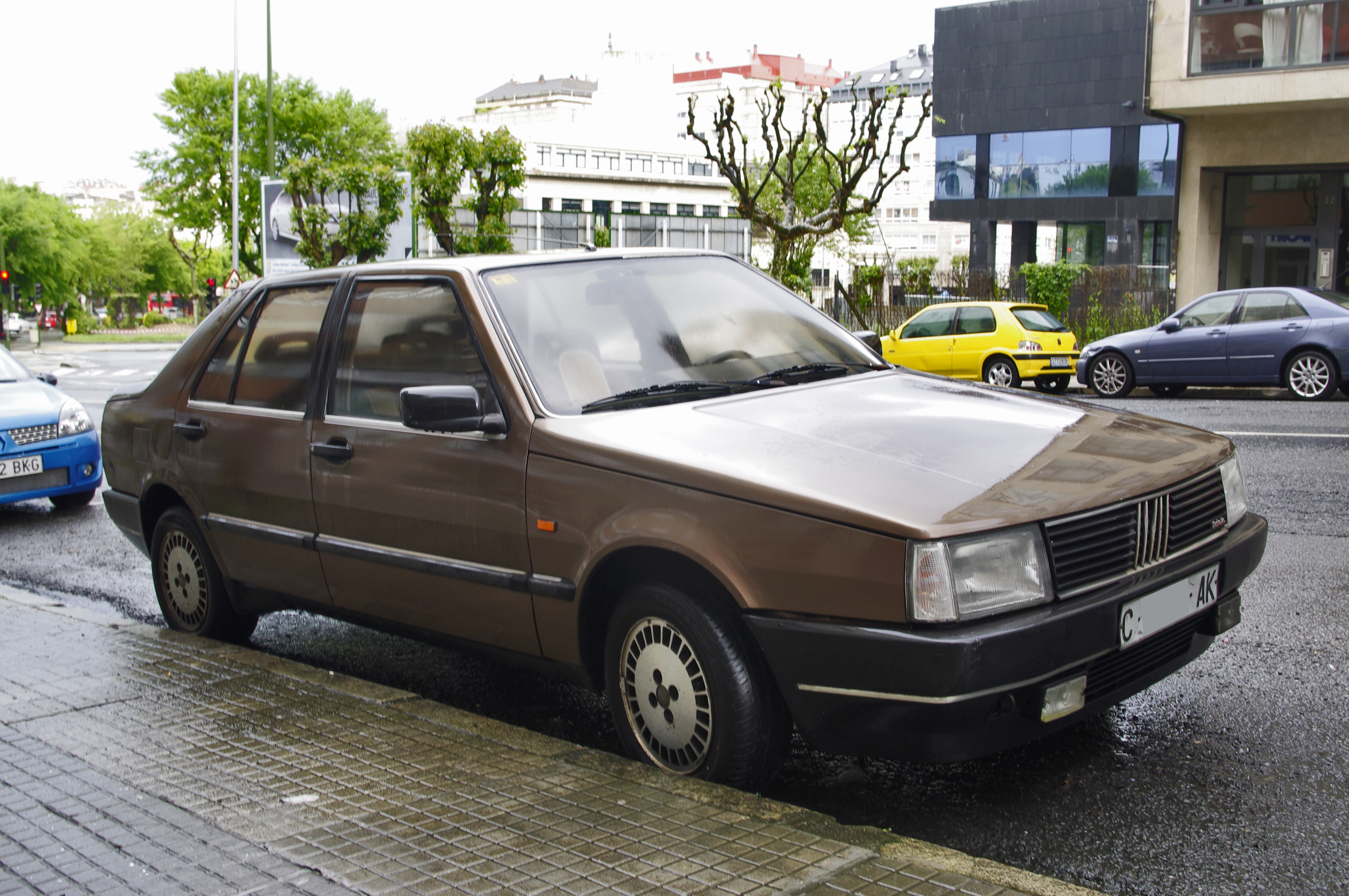 Neat find but in not very good shape. Rust all over the place and even a puddle inside of it in the back seat. The rear wiper was like a graft from another model. Over all a very nice looking car with a nice interior whom I don't forsee a very good future.